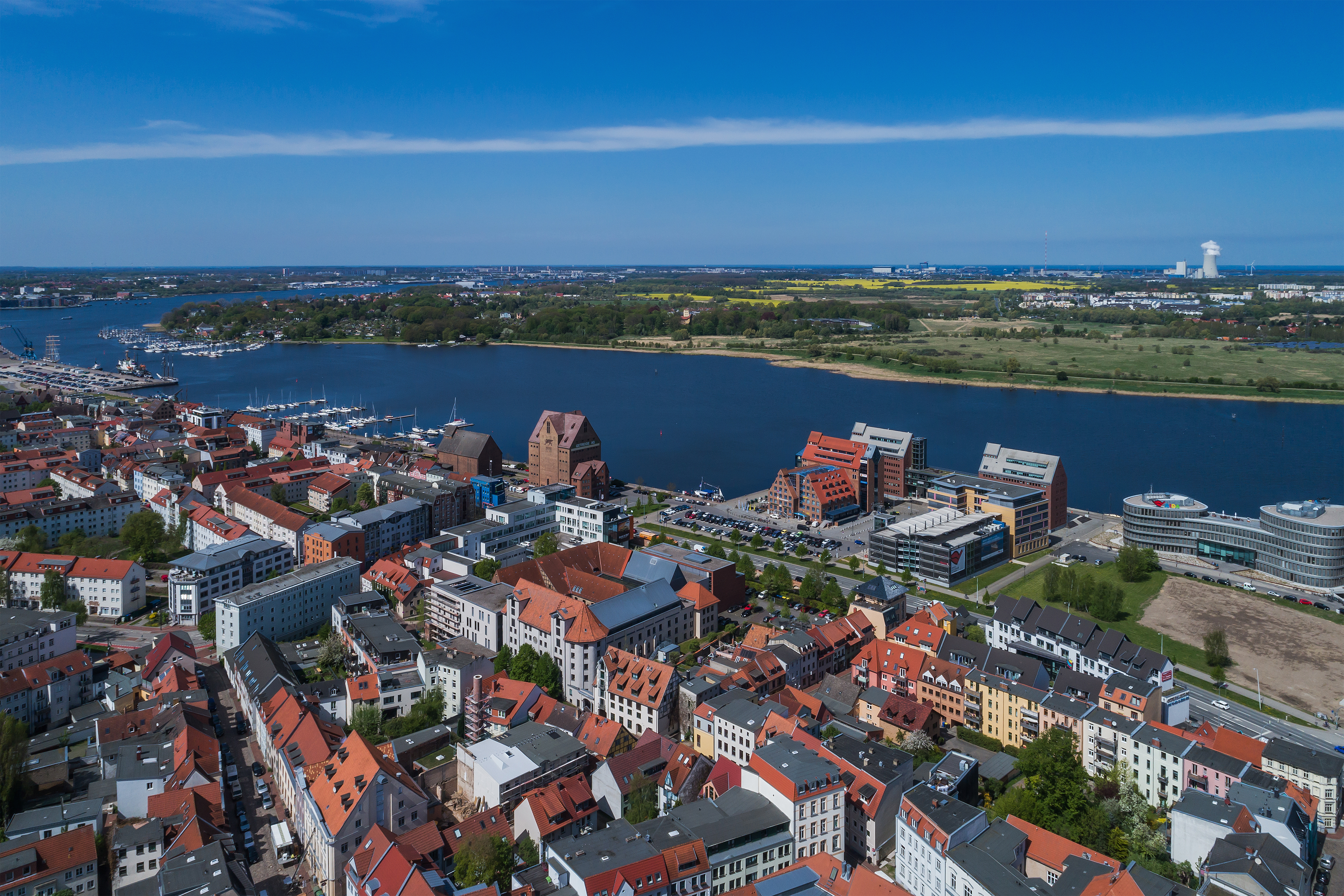 Aerial photo near the urban port in Rostock, Germany